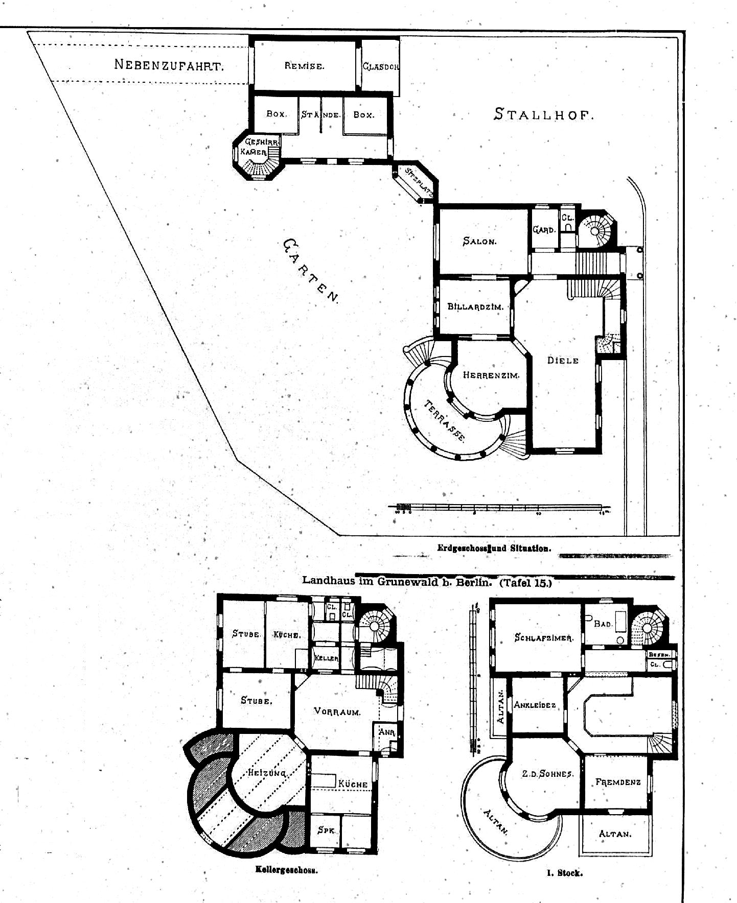 Villa_im_Grunewald_bei_Berlin_Trabenerstr._1_Architekt_Ludwig_Otte__Tafel_15,_Grundriss.jpg